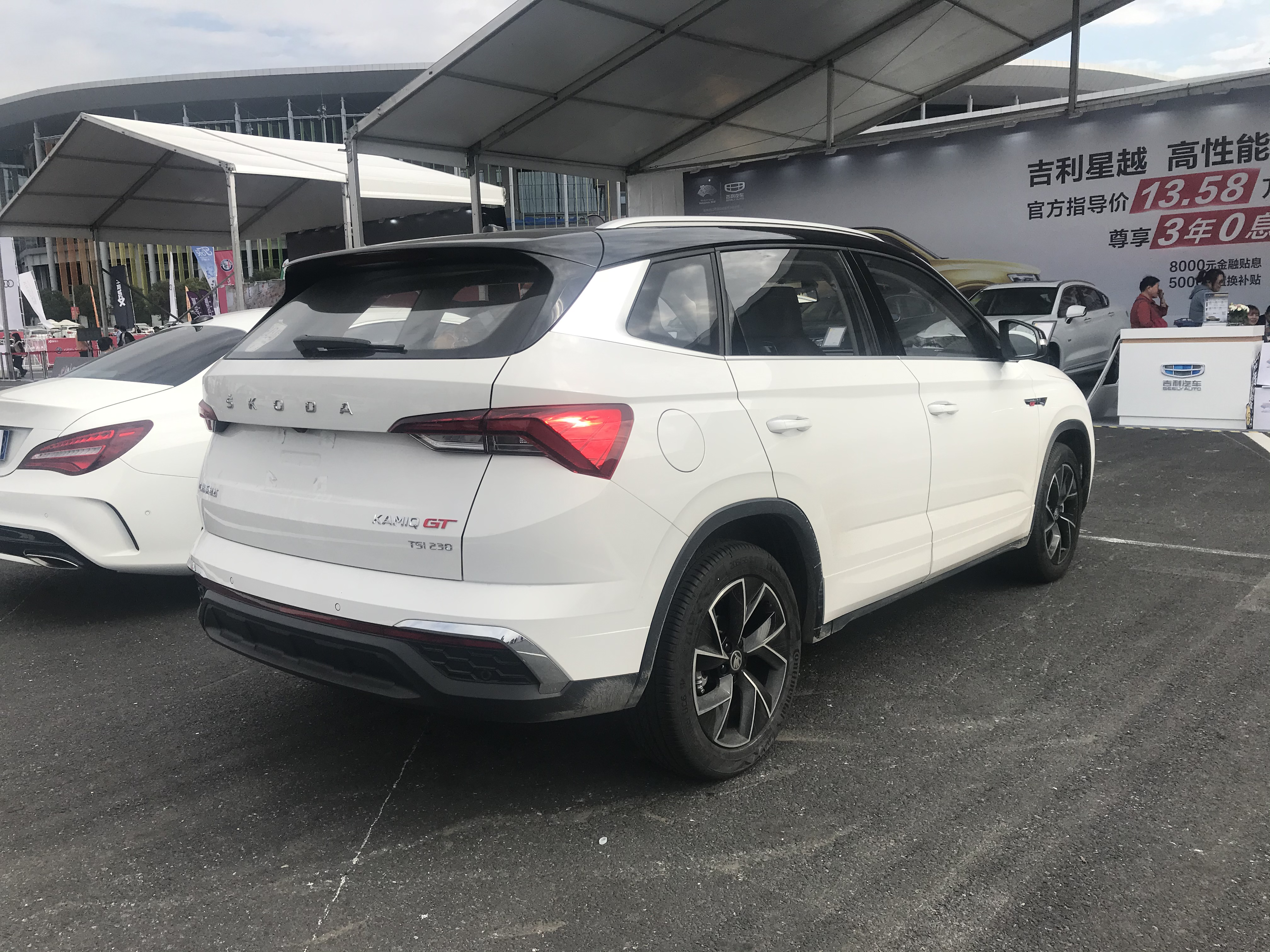 Skoda Kamiq GT rear